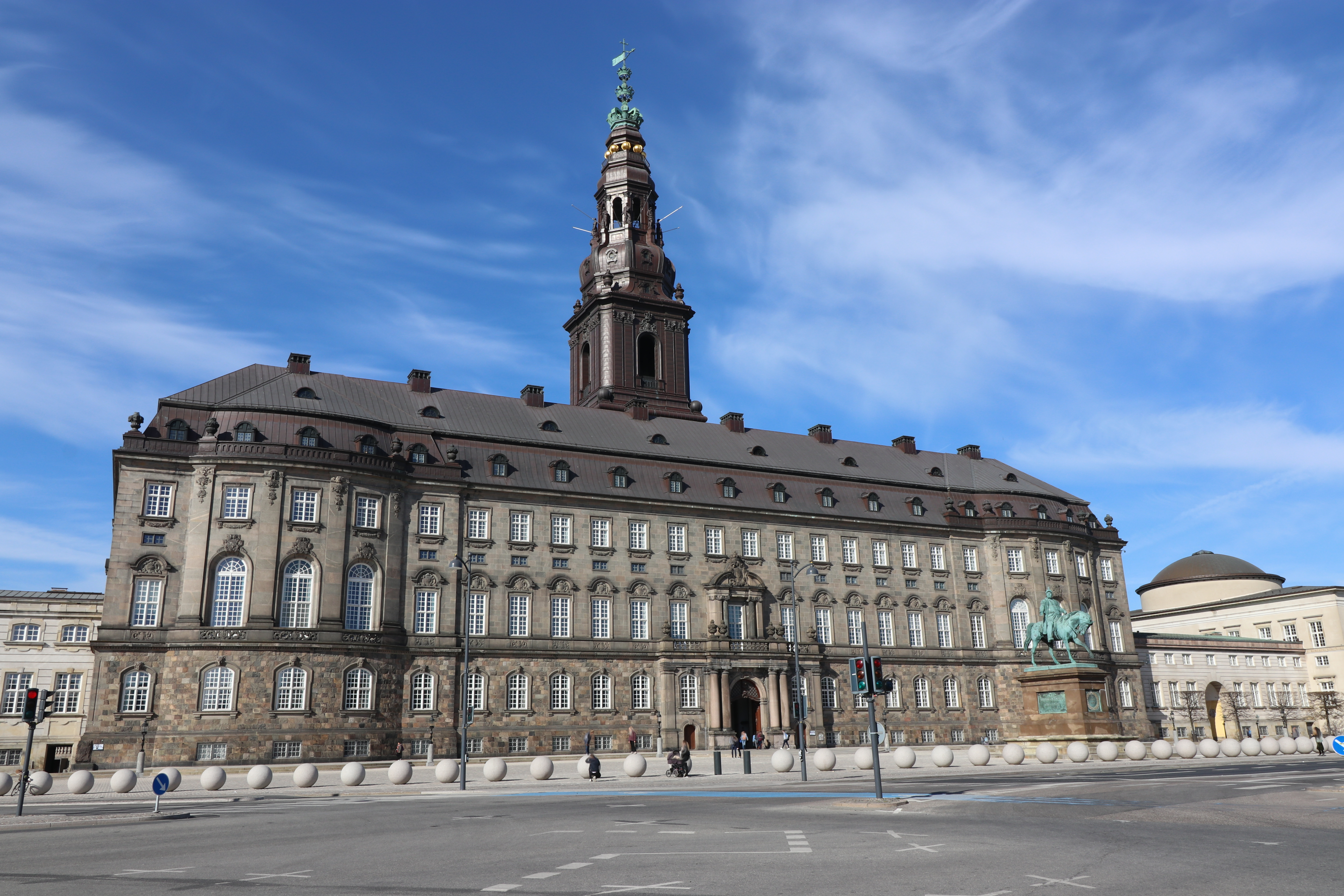 Christansborg castle, the seat of the Danish Parliament (Folketinget), Prime Minister and Supreme Court